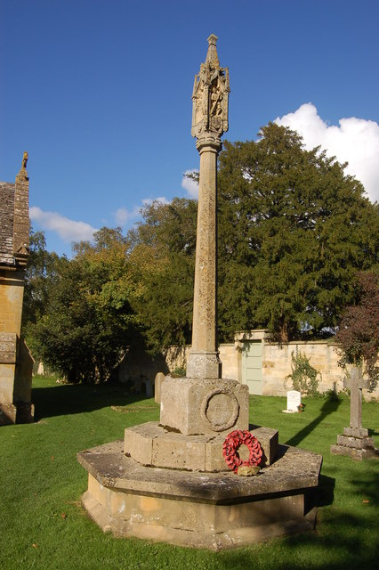 War memorial in St Michael and All Angels churchyard, Stanton, Gloucestershire